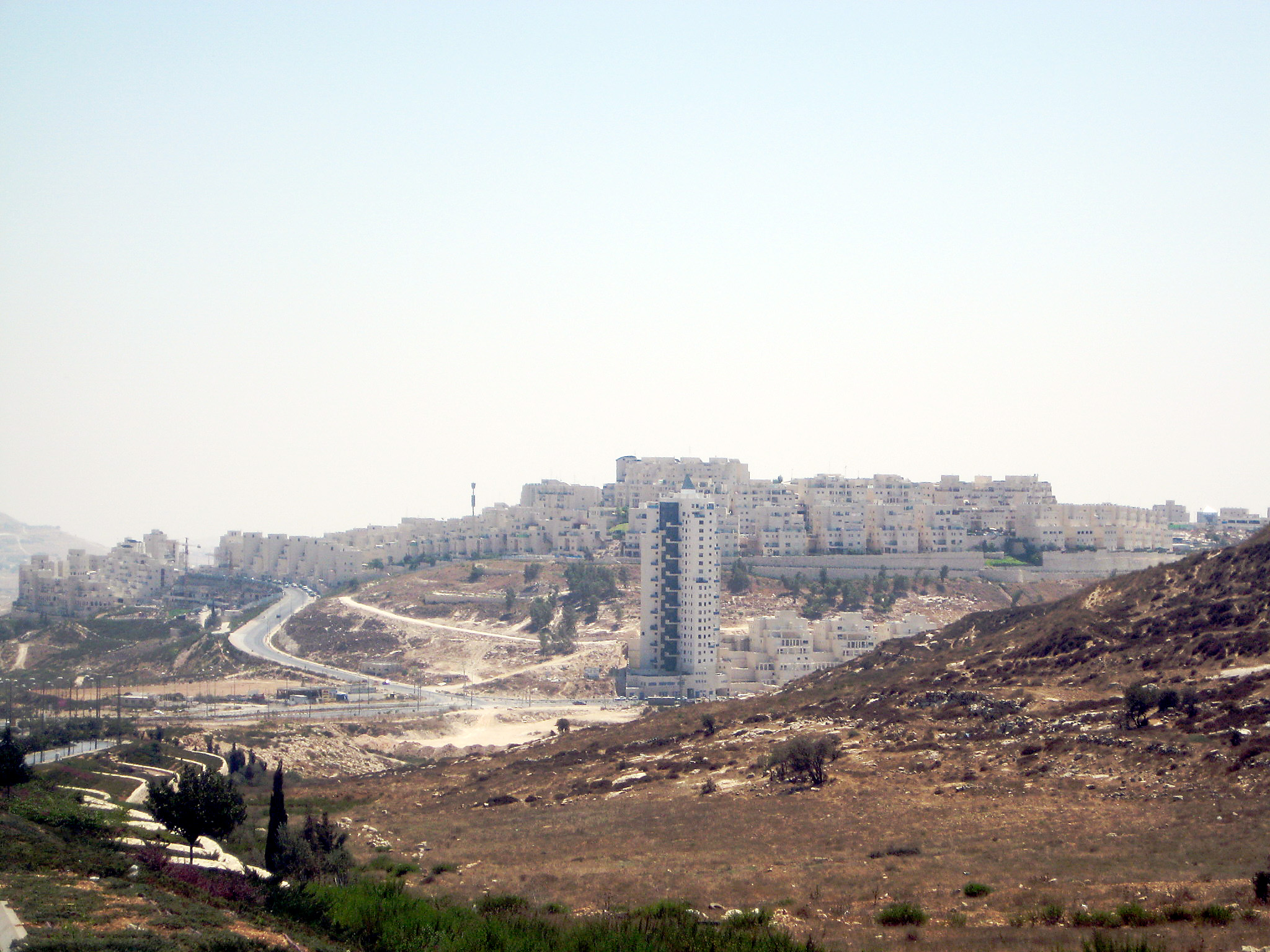 Har Homa neighbourhood, Jerusalem